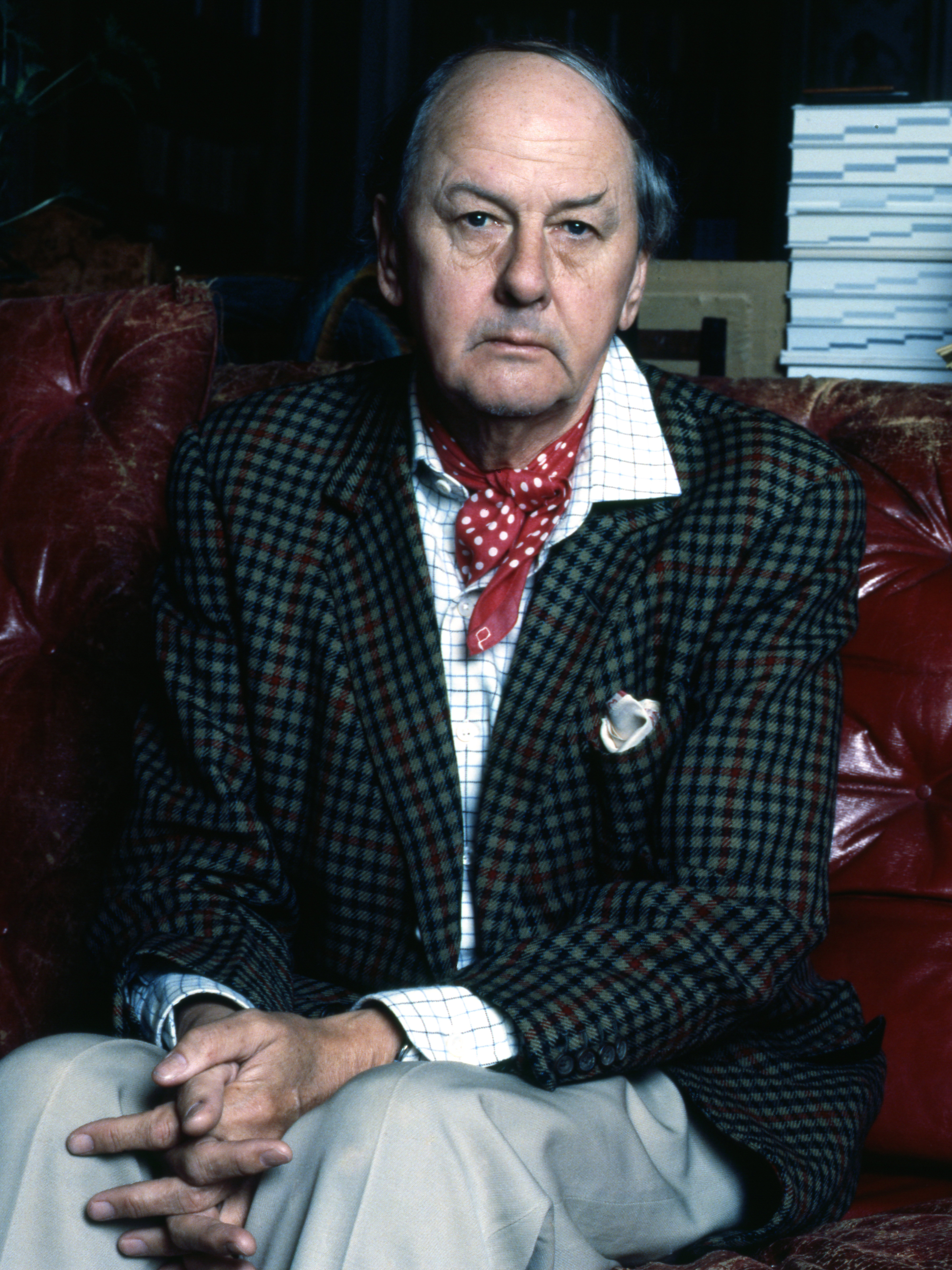 Andrew Robert the 11th Duke of Devonshire outside Chatsworth